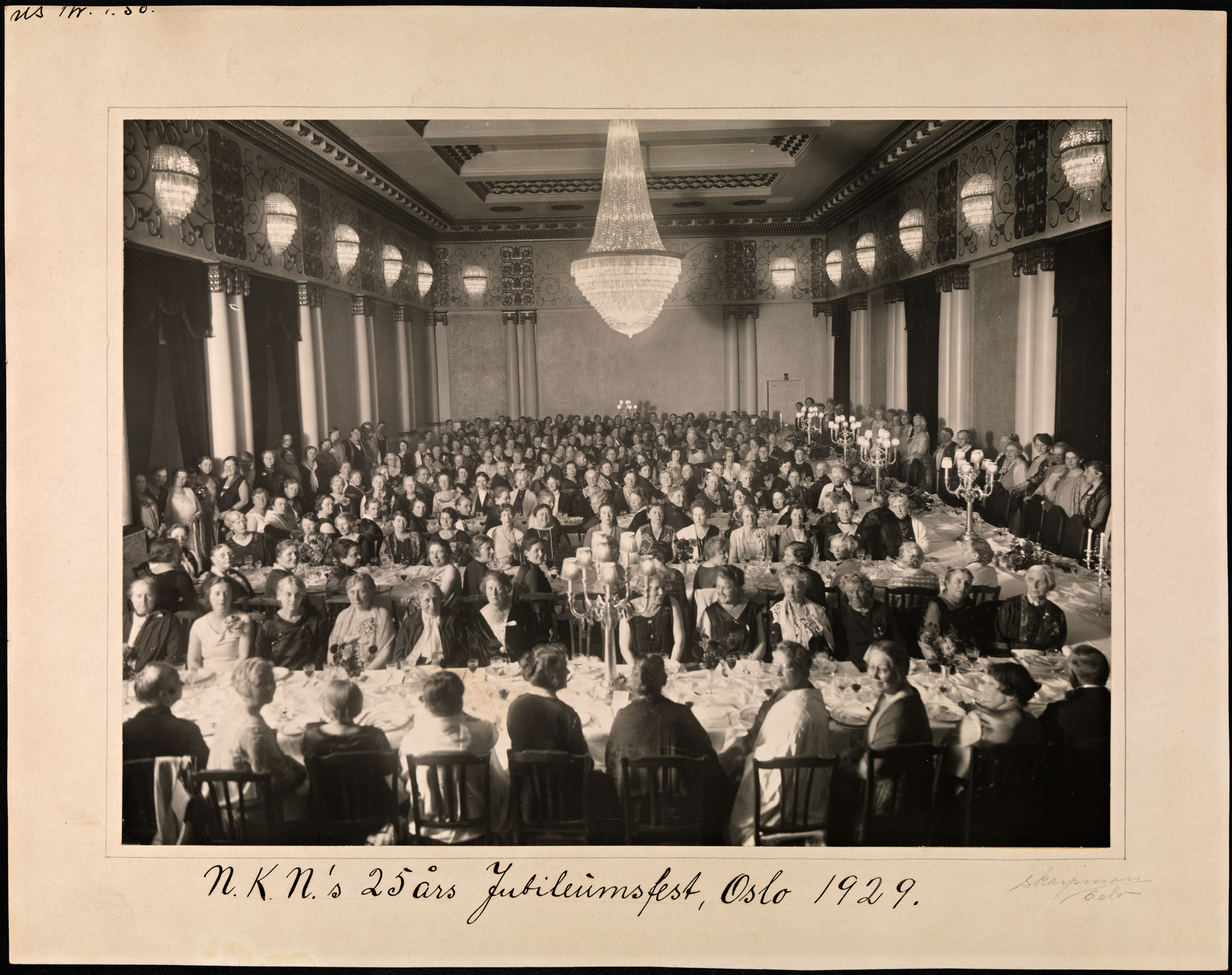 Tittel / Title: N.K.N.'s 25års Jubileumsfest, Oslo 1929. Motiv / Motif: Jubileumsfest for Norske kvinners nasjonalråd (stiftet 1904). Dato / Date: 1929 Fotograf / Photographer: Narve Skarpmoen (1868-1930) Sted / Place: Oslo Eier / Owner Institution: Nasjonalbiblioteket / National Library of Norway Lenke / Link: Bildesignatur / Image Number: blds_04525